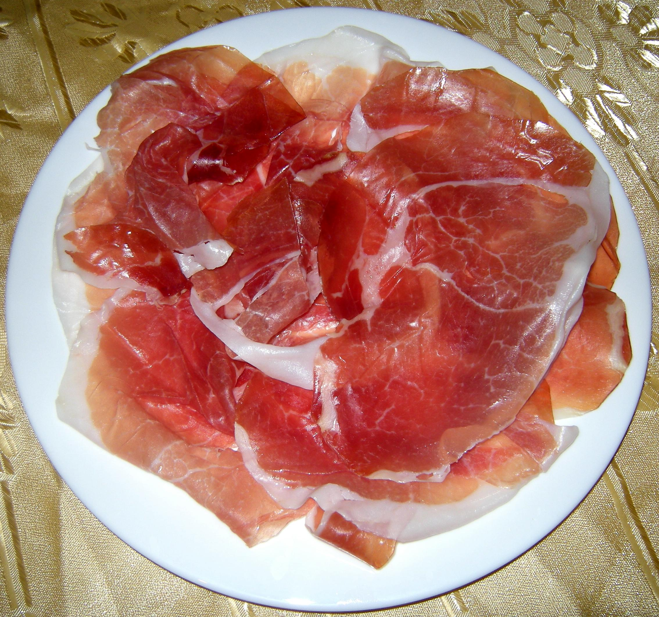 Culaccia (or Culatta) of Parma